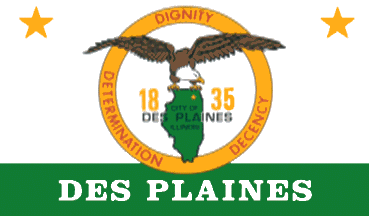 City of Des Plaines Flag